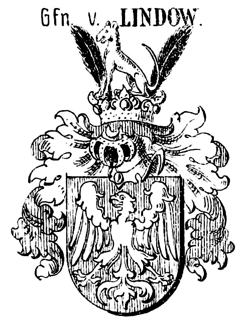 Coat of arms of the Counts of Lindow